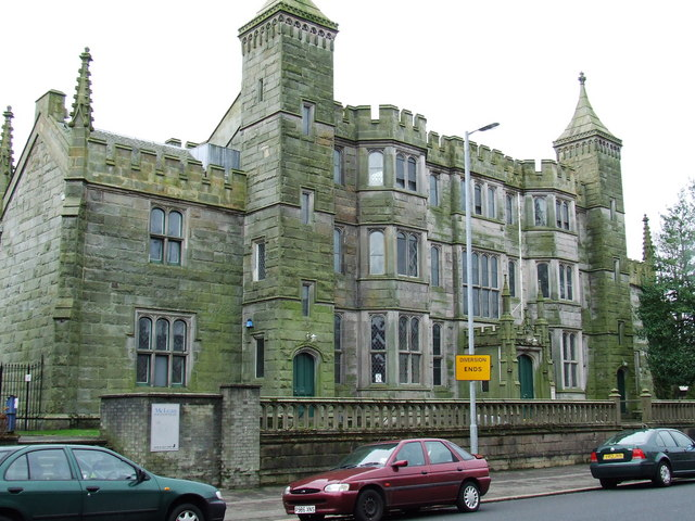 Watt Monument Library This building also houses the Mclean Museum & Art Gallery.